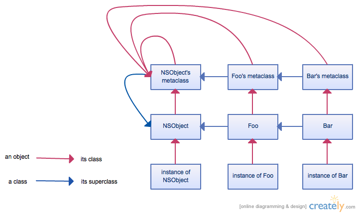 This is a diagram I drew of the inheritance and instance-of relationships of classes and metaclasses in Objective-C based on my understanding.